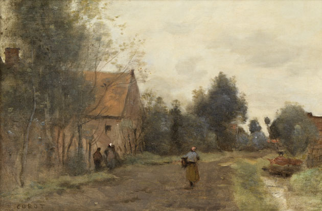 3731 PAINTINGS landscape; countryside painting Sin Pres de Douai, Rue du Village, Le Martin Corot, Jean Baptiste Camille (1796 - 1875, French) France, Douai (place depicted) 1872 French oil on canvas framed: 496 mm x 632 mm x 72 mm (depth approx.) Landscape painting of a peaceful rural subject looking along a dusty road leading into a village. The road is lined with trees at left with one house. Woman is walking along the road towards the village, while two other figures are standing beside the road in front of the house at left. Signed at lower left.